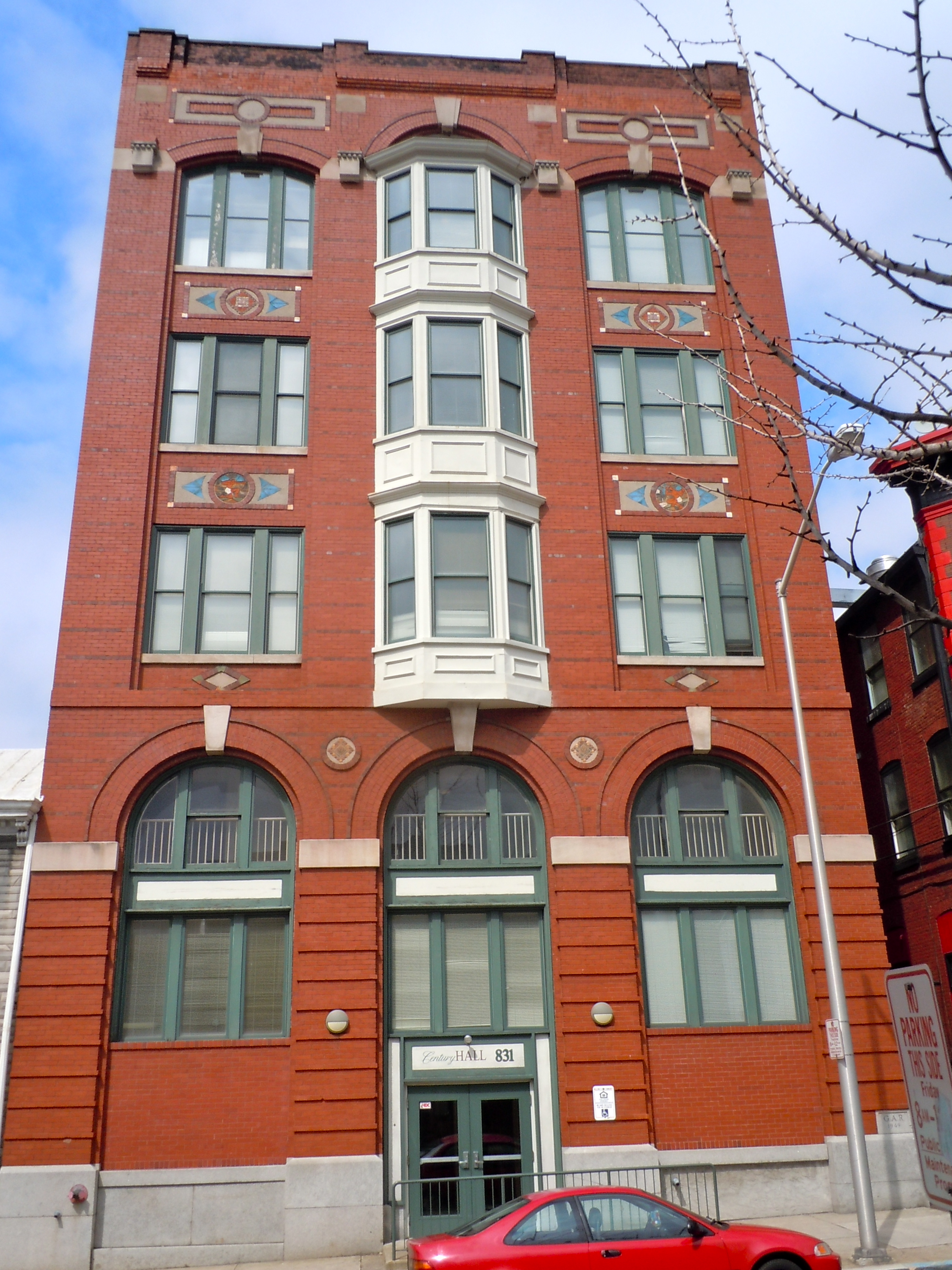 Red Men Hall on the NRHP since July 27, 2000. At 831–833 Walnut Street, Reading, Pennsylvania